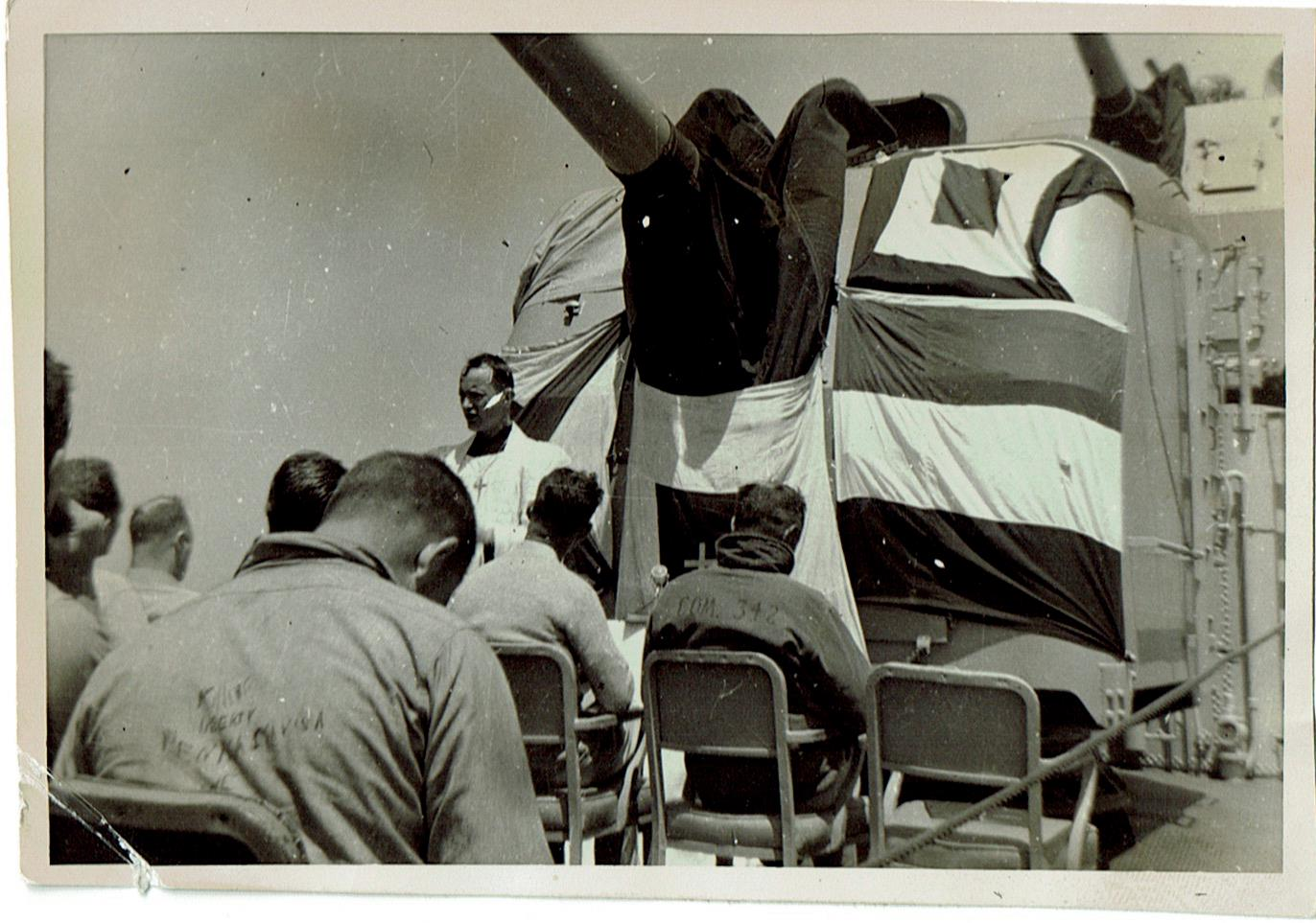 Sunday morning mass aboard the U.S. Navy destroyer USS Wadleigh (DD-689) off the coast of North Korea, in 1954.